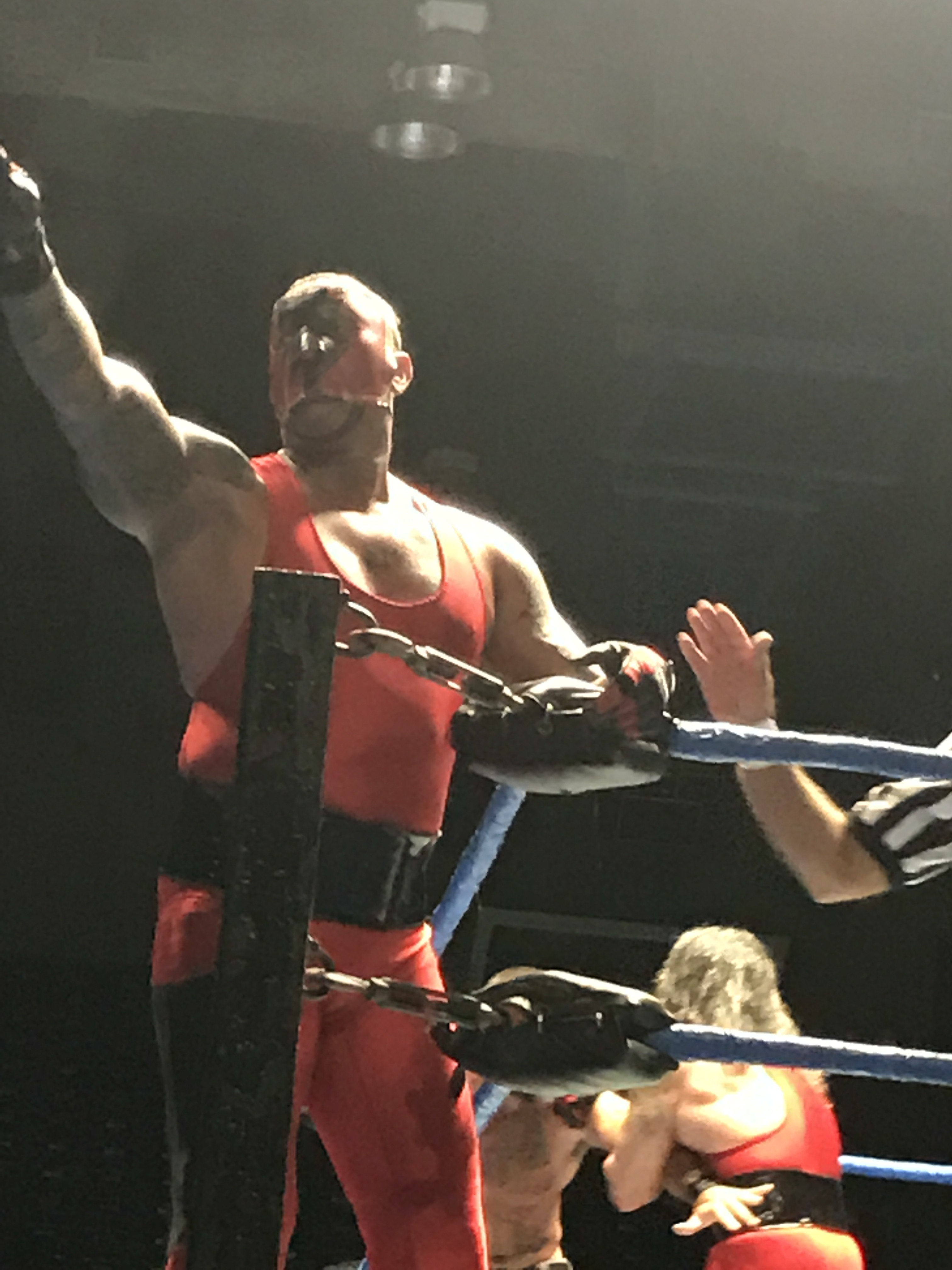 Professional wrestler Lightning at the World Wrestling Council's Aniversario 2018 event.